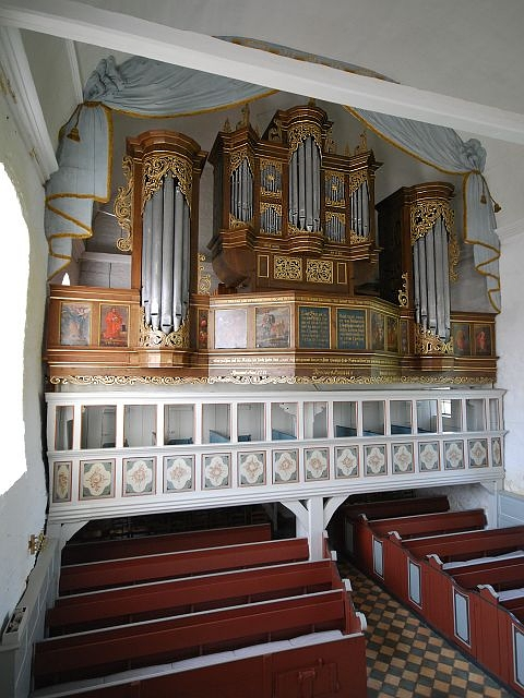 Schnitger organ Steinkirchen